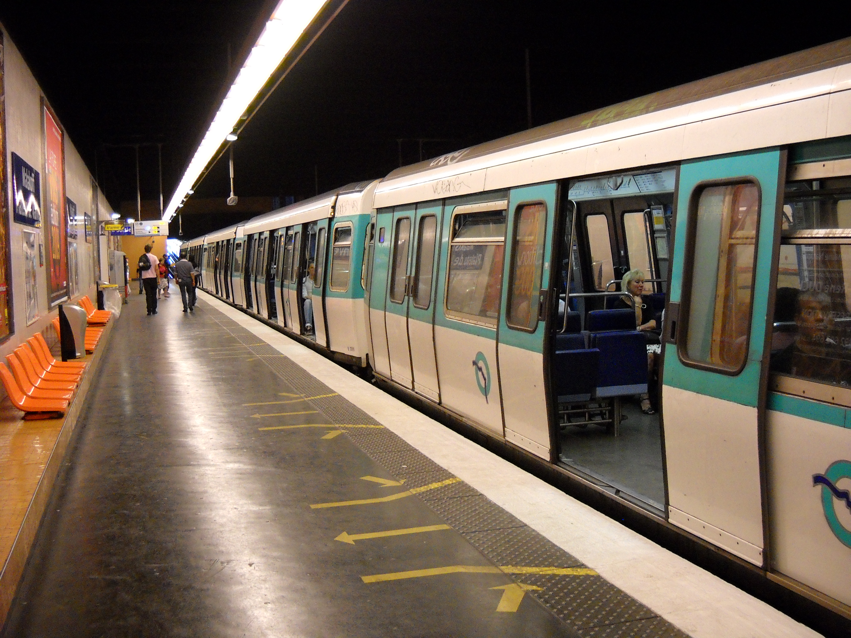 "Malakoff - Plateau de Vanves" station, on Paris Metro line 13.